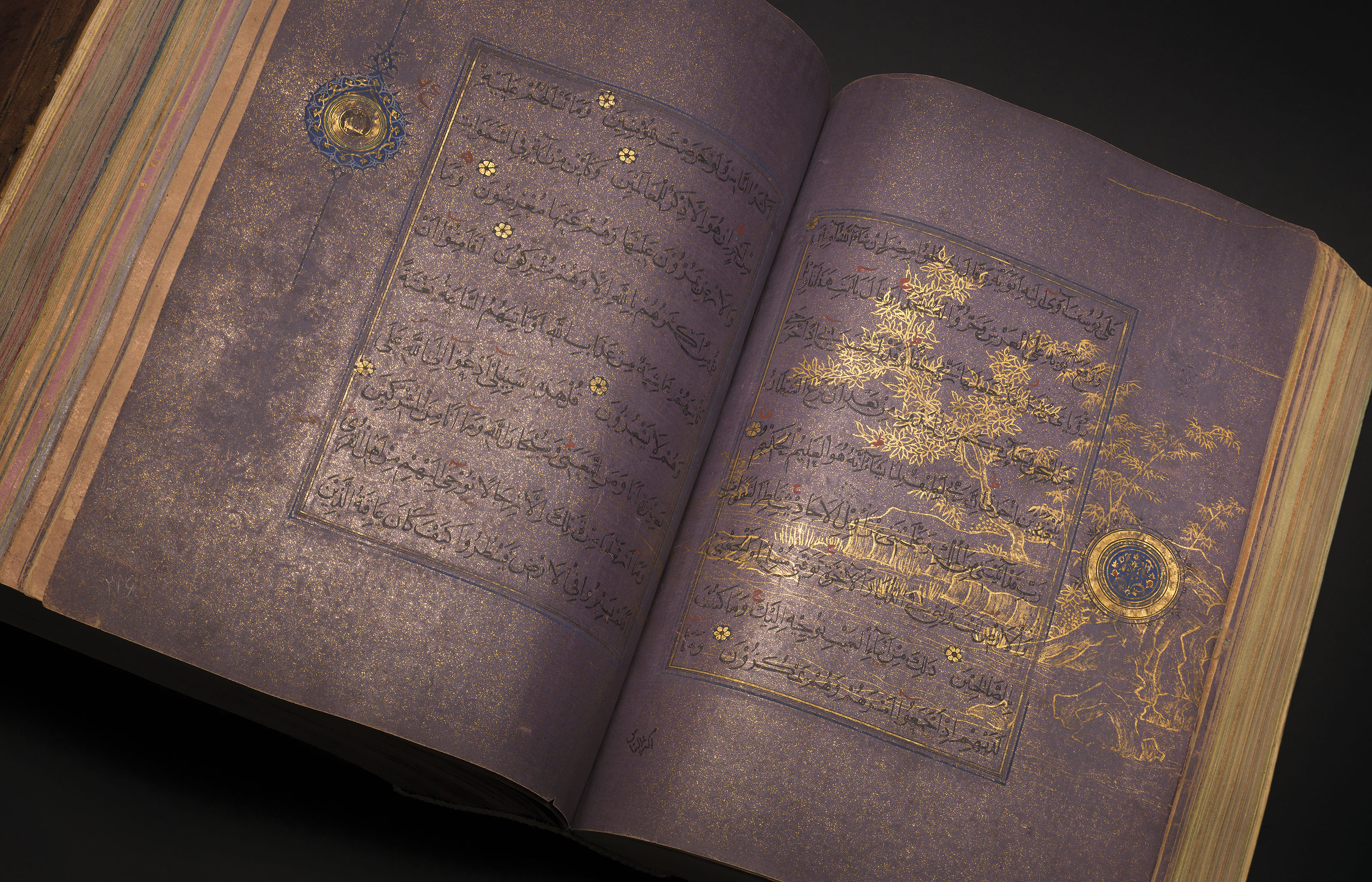 Folios from a 15th-century Persian Quranic manuscript. The manuscript was produced in Timurid or Aq Qoyunlu domains using paper manufactured in the Ming dynasty. The Arabic is written in naskh script.